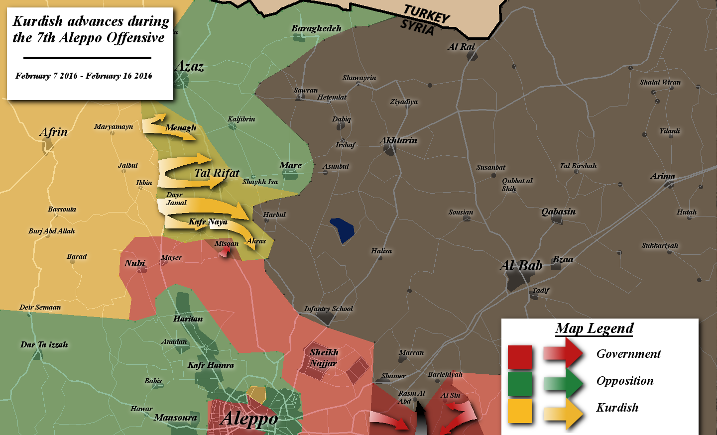 A simplified map of Kurdish advancements concurrent with the 7th Aleppo offensive. Created in gimp 2.8. Influenced by many maps from creators: MrPenguin20, PetoLucem, Edmaps Syria, and so on.